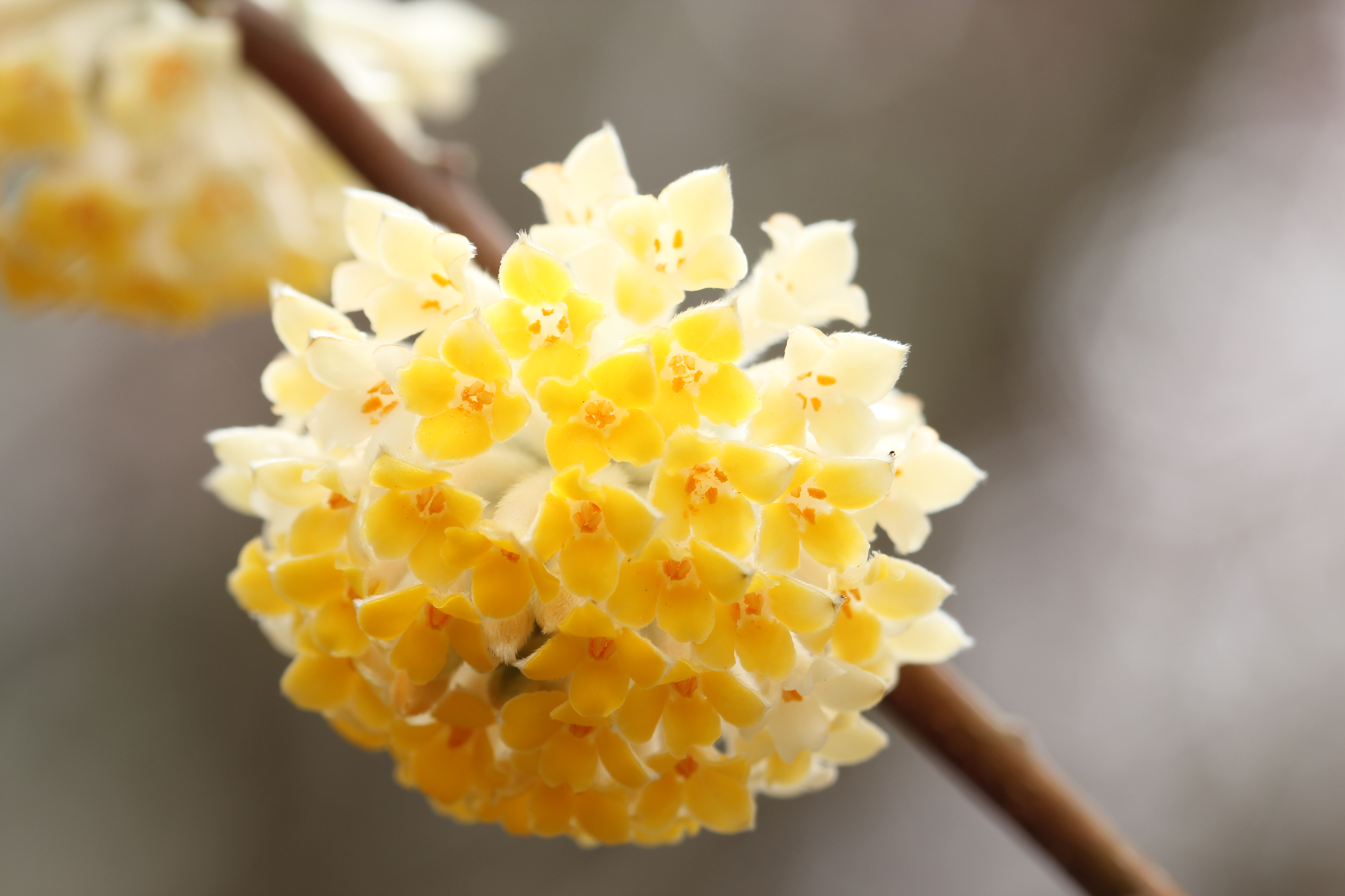 Edgeworthia chrysantha